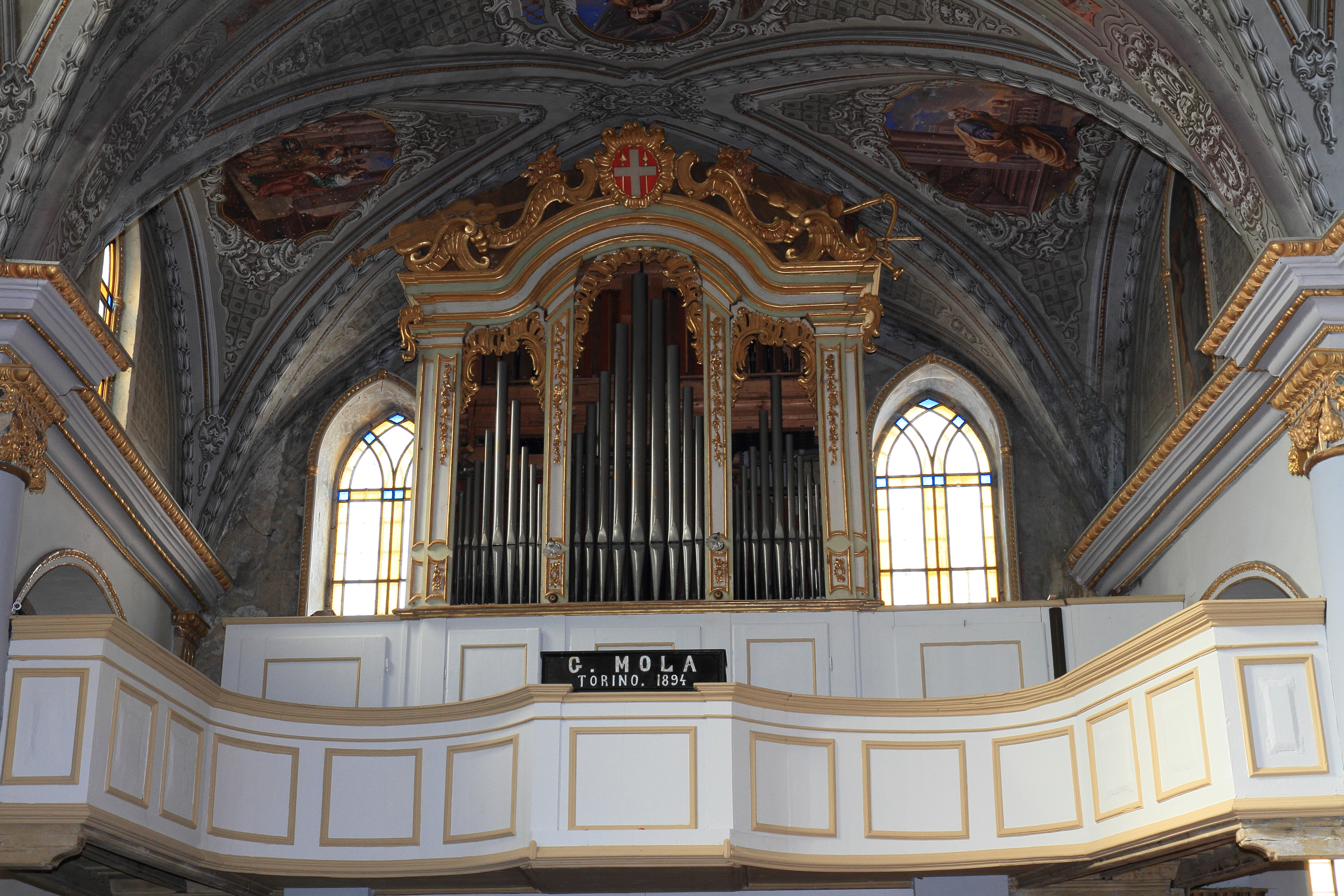 Choir of the San Pietro in Vincoli's Church in Lanzo Torinese (TO) - ITALY